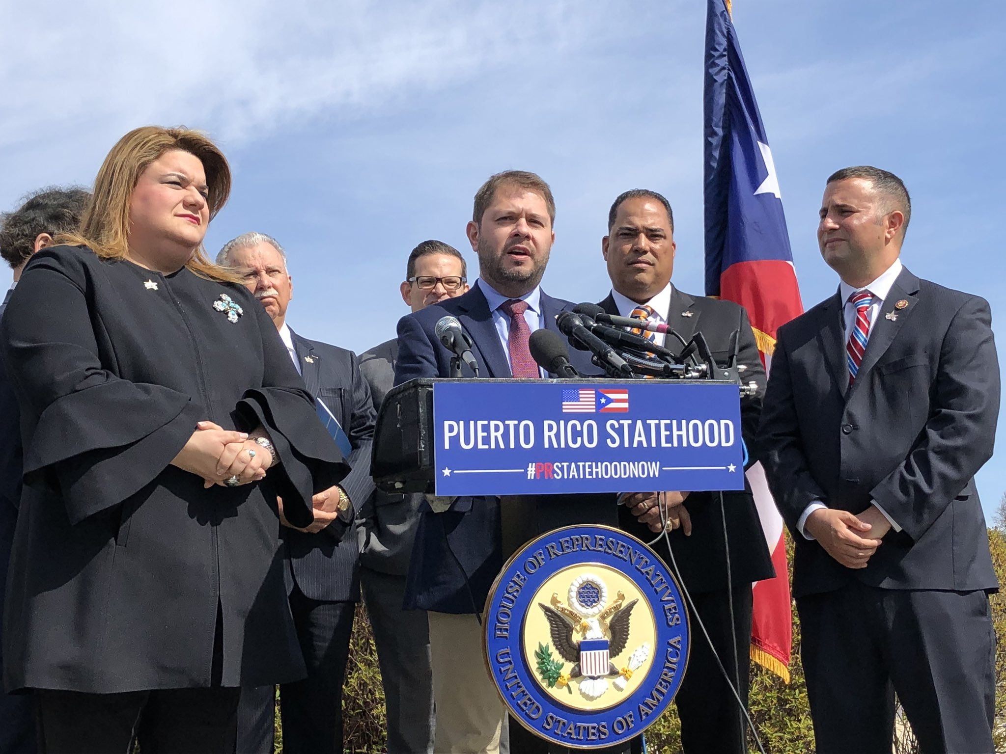 It is fundamentally unfair for the people of Puerto Rico - who serve in our military & contribute to our country - to be treated as 2nd class American citizens. I am proud to support legislation that will finally ensure 3 million Puerto Ricans are treated fairly. #PRStatehoodNow